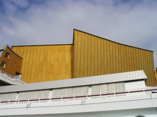 Description: Philharmonie in Berlin, built by Hans Scharoun. Source: self-made. I release it into the public domain.